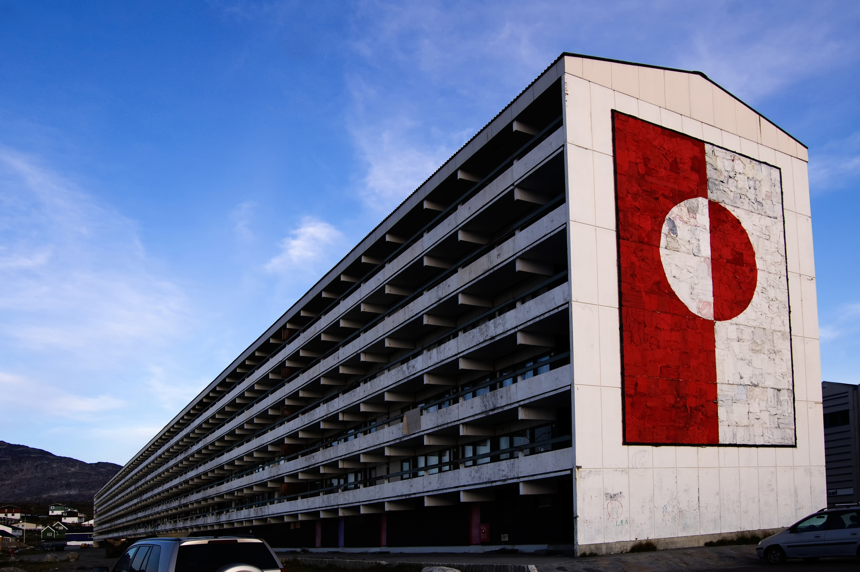 The ugliest and biggest residential building in Greenland. Over 500 apartments. Built in the 70's